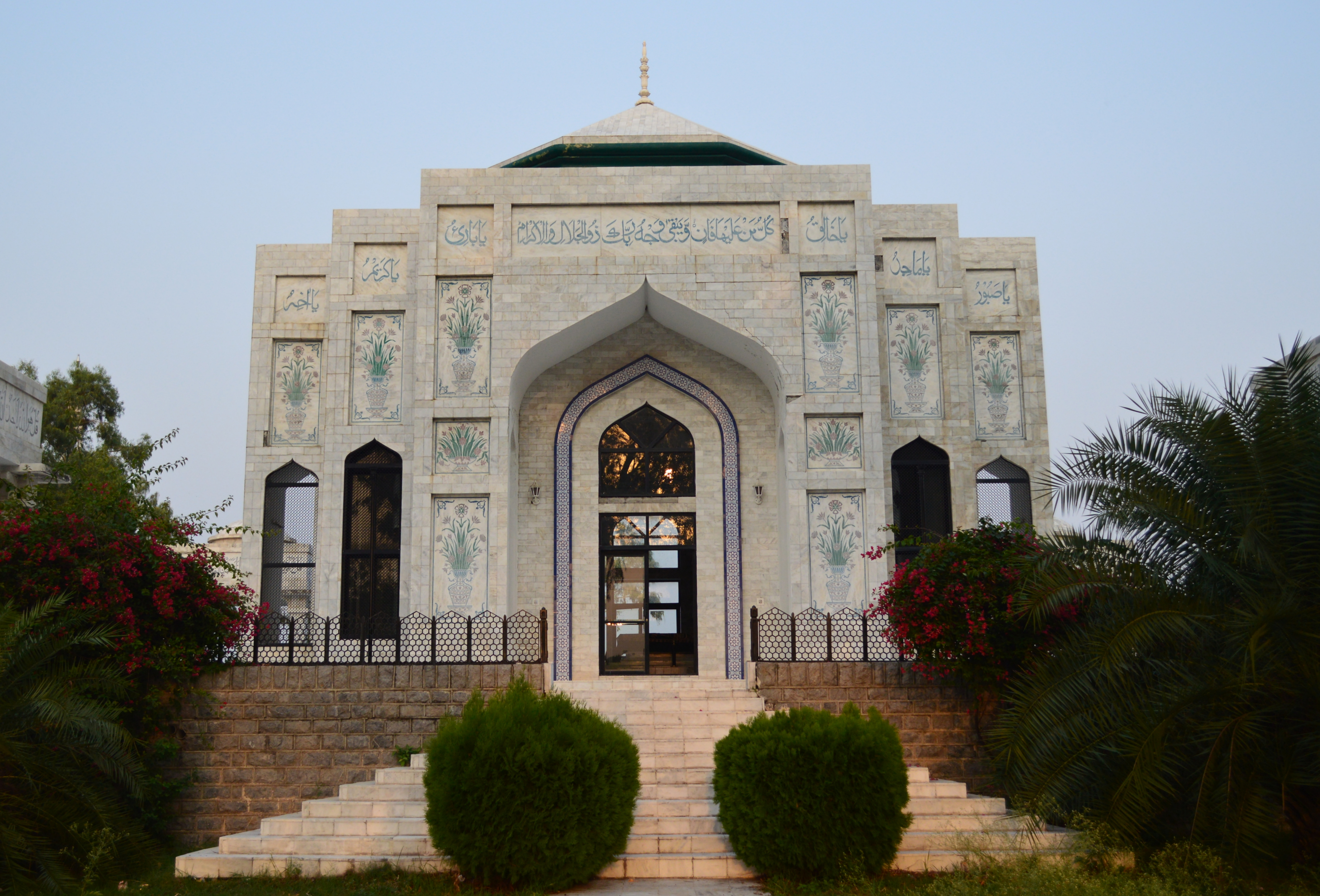 Shrine of Mu'izz al-Din Muhammad This is a photo of a monument in Pakistan identified as the PB-U-29